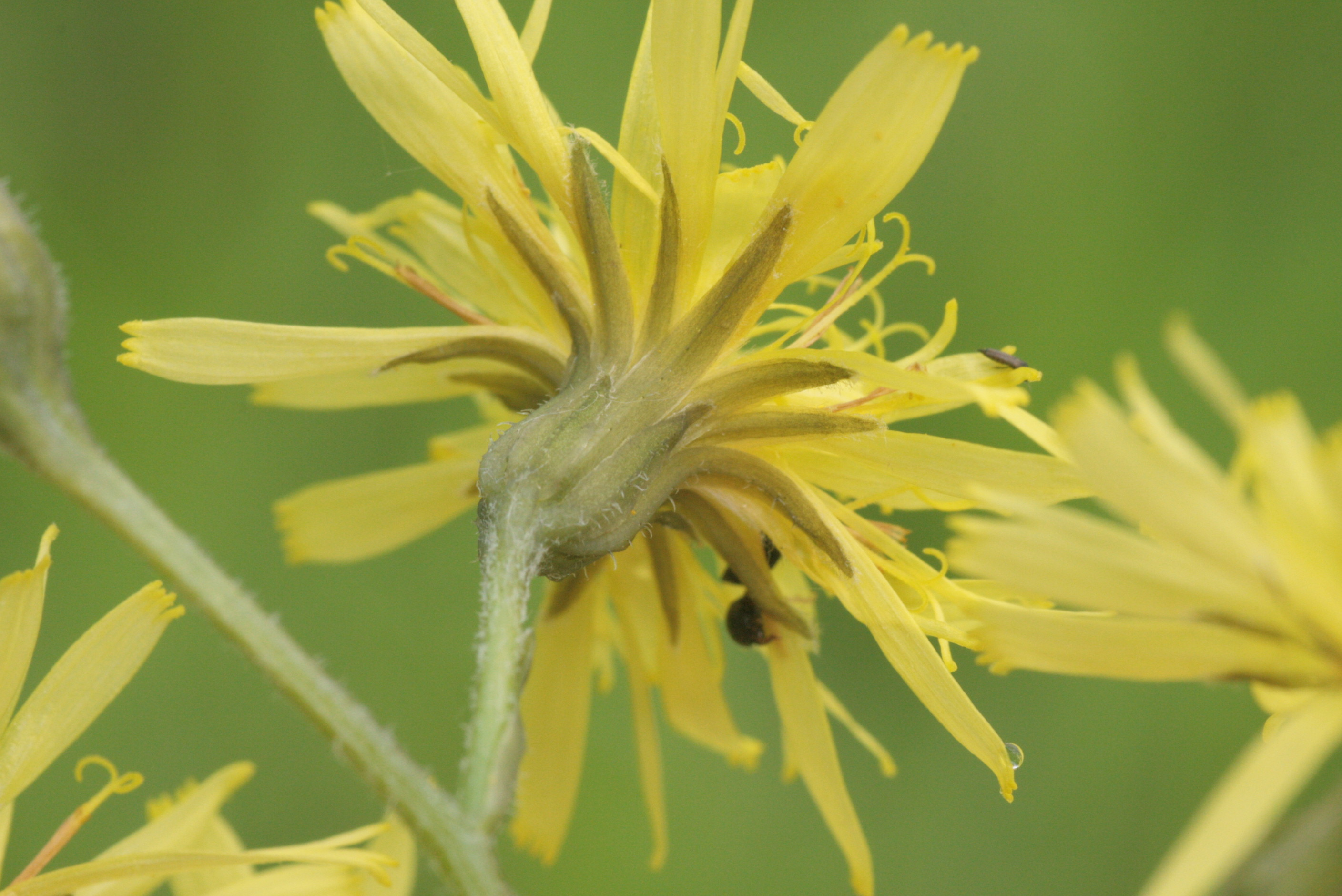 Crepis praemorsa